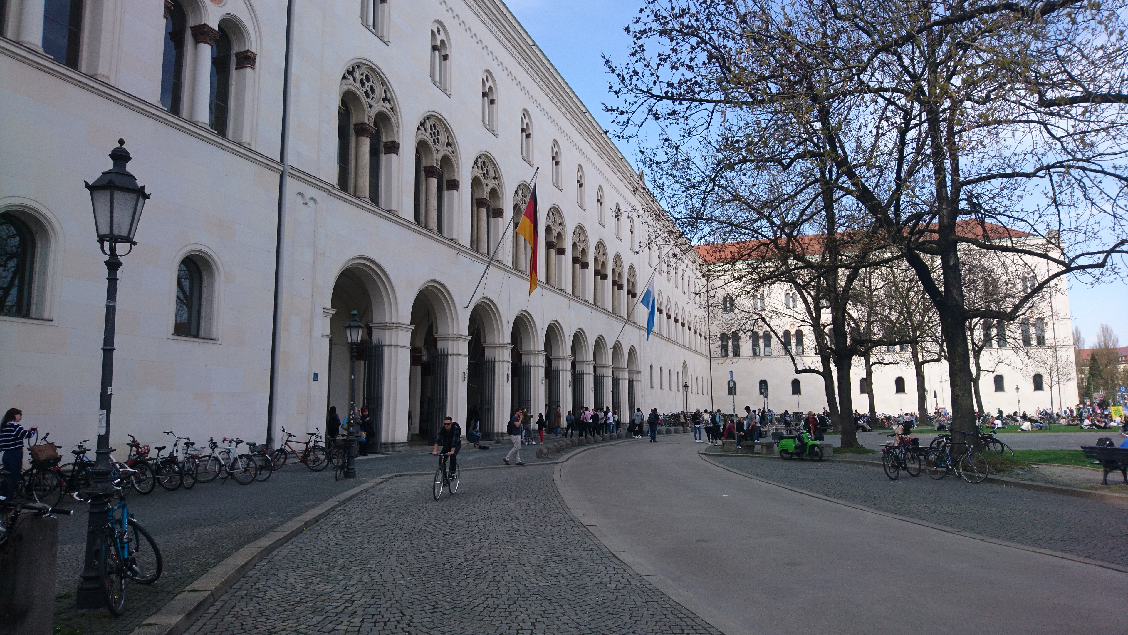 Picture of the entrance to the main building of the Ludwig Maximilian University of Munich, Gemany